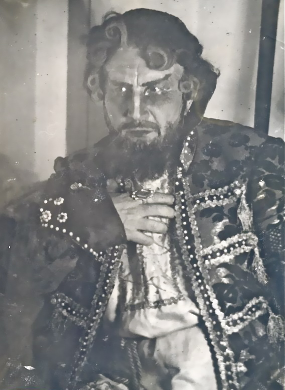 Michael Shuisky (1883–1953) as Grigory Gryaznoy in Rimsky-Korsakov's 1899 opera The Tsar's Bride